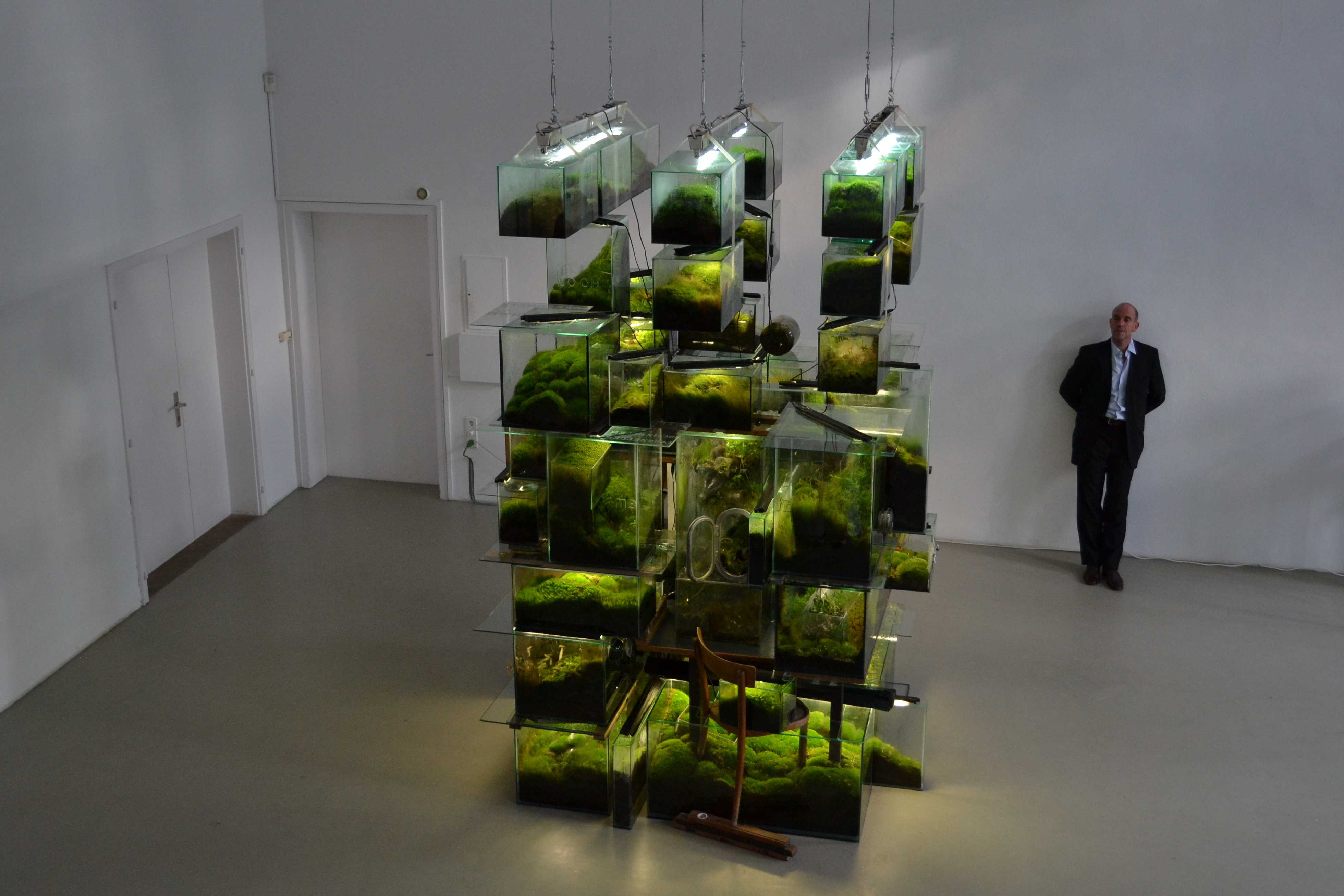 at FORUM KUNST, Rottweil, Germany. Walter Kütz - silent observer.